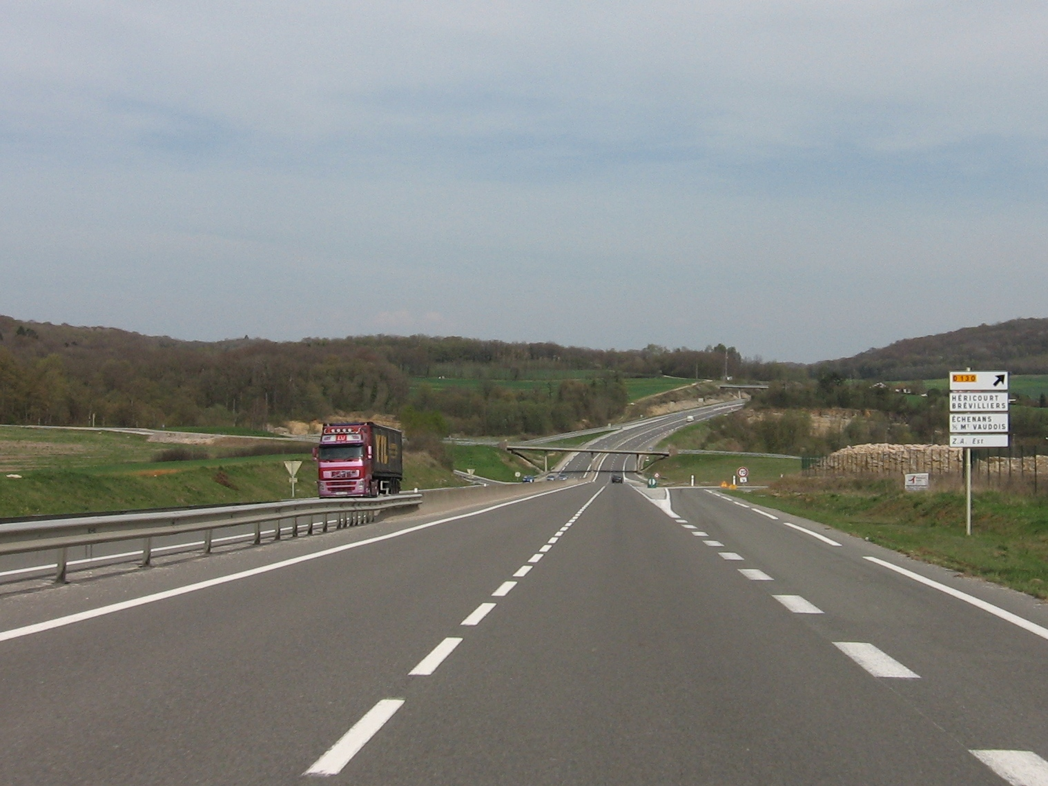 D438 motorway south of Belfort, France